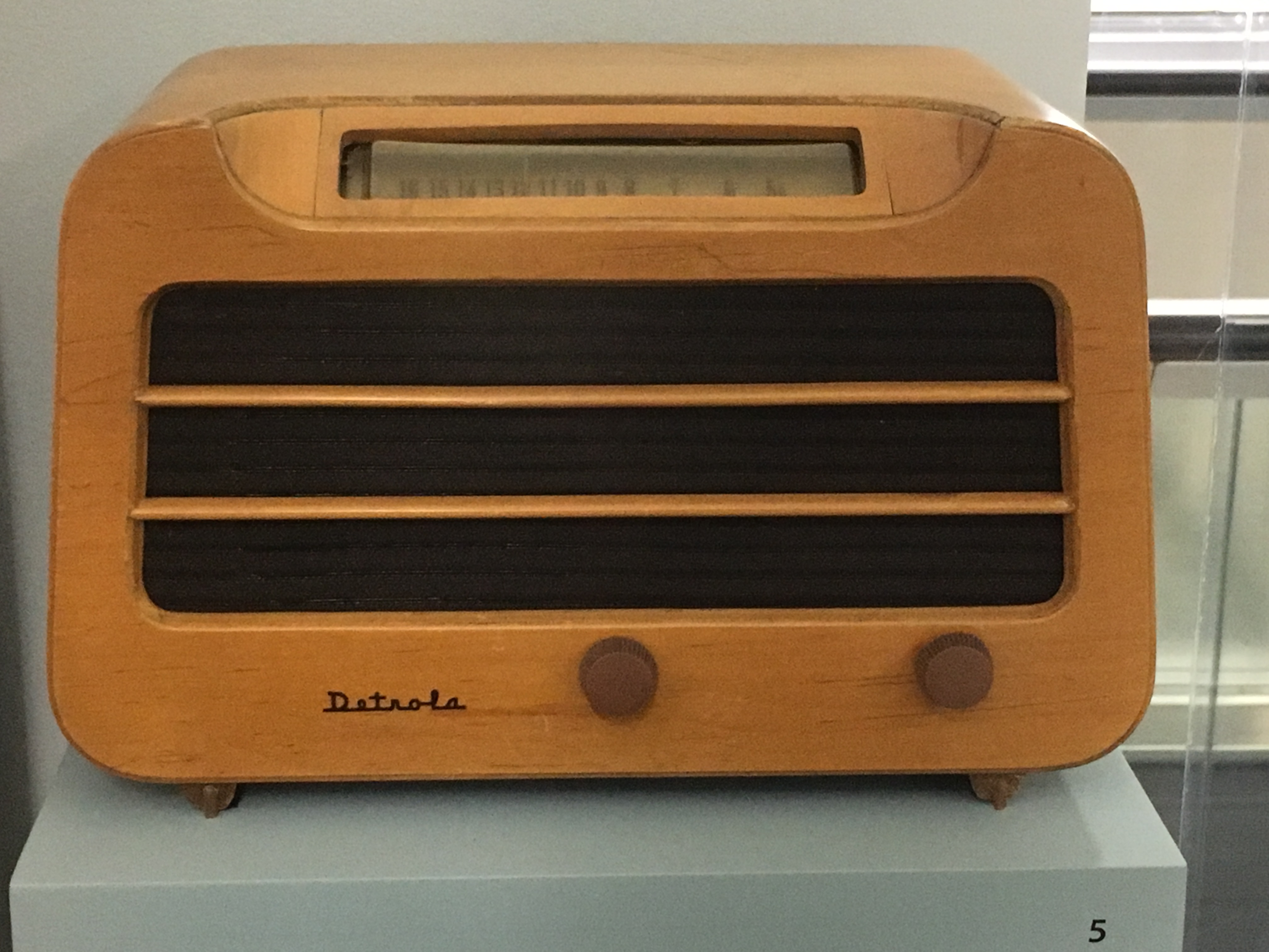 Detrola Model 579 (1946) radio. Designed by Alexander Girard and manufactured by Detrola Corporation in Detroit, Michigan. Plywood. On display at SFO Museum "On The Radio" exhibition in 2018.